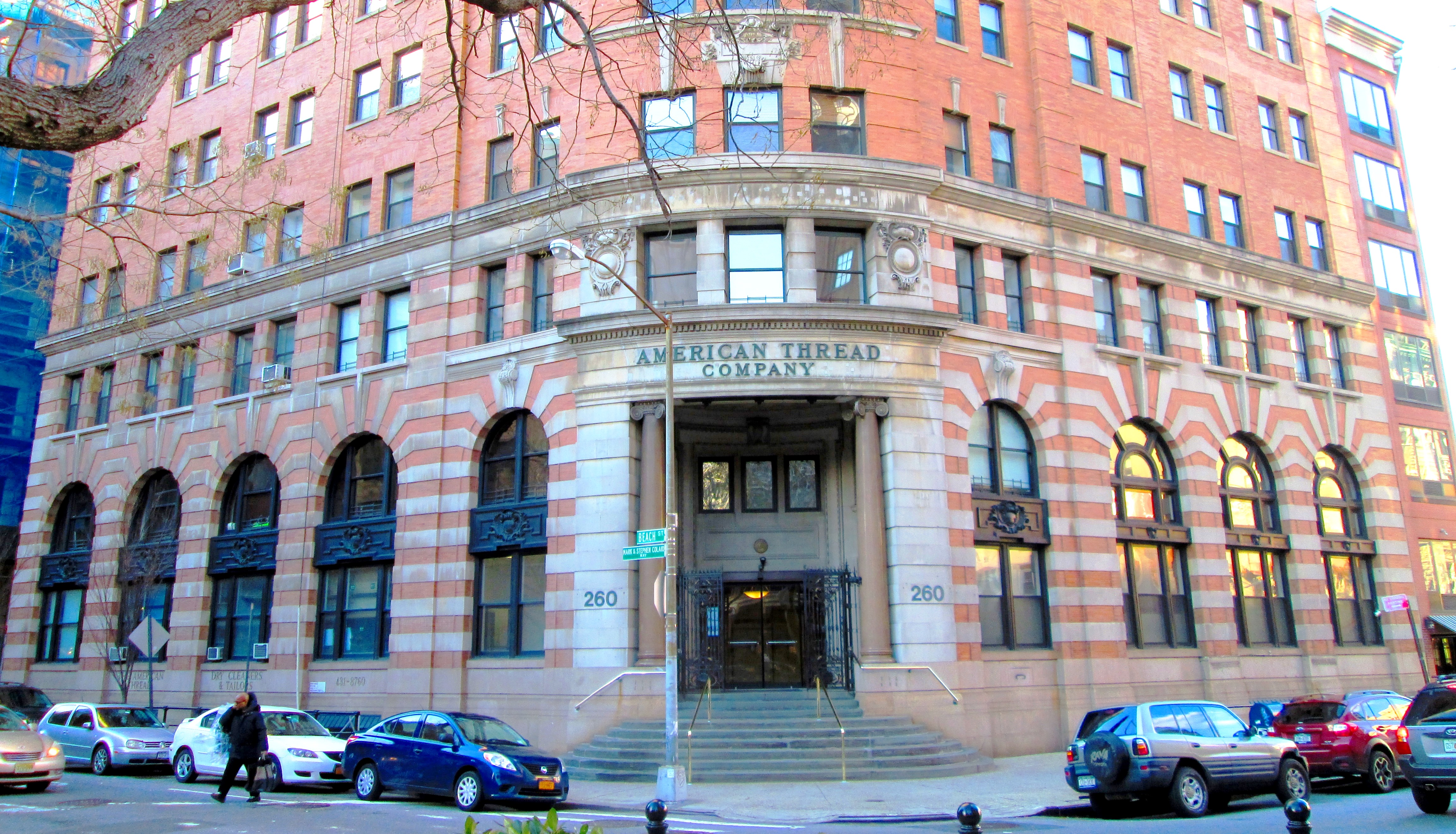 American Thread Building is a historic 1896 building located at 260 West Broadway on the corner of Beach Street in the TriBeCa neighborhood in lower Manhattan, New York.